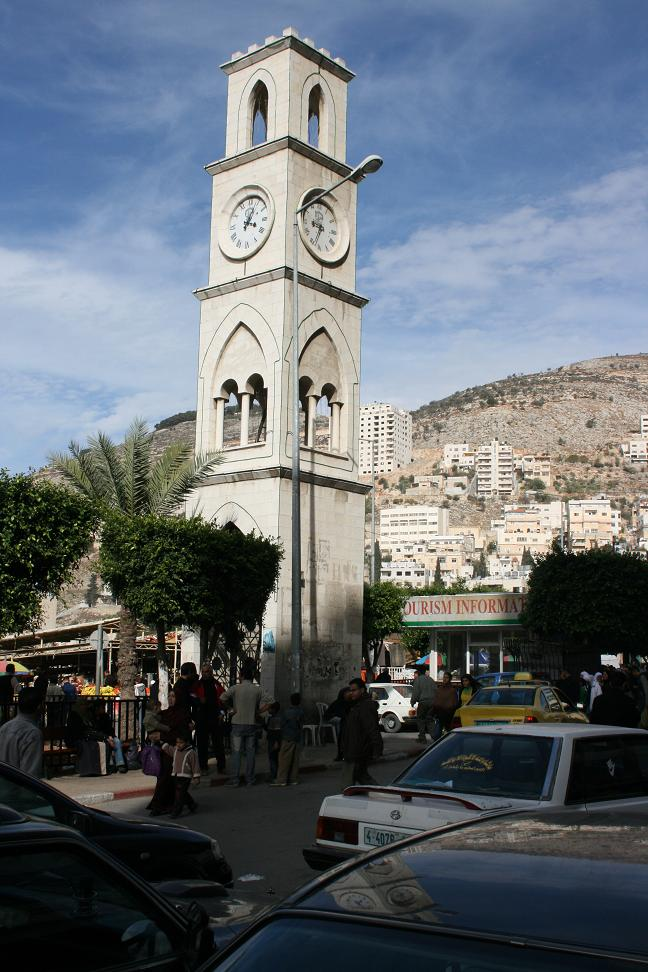 This is the clock tower at the roundabout in downtown Nablus. Beside it is the tourism information booth.